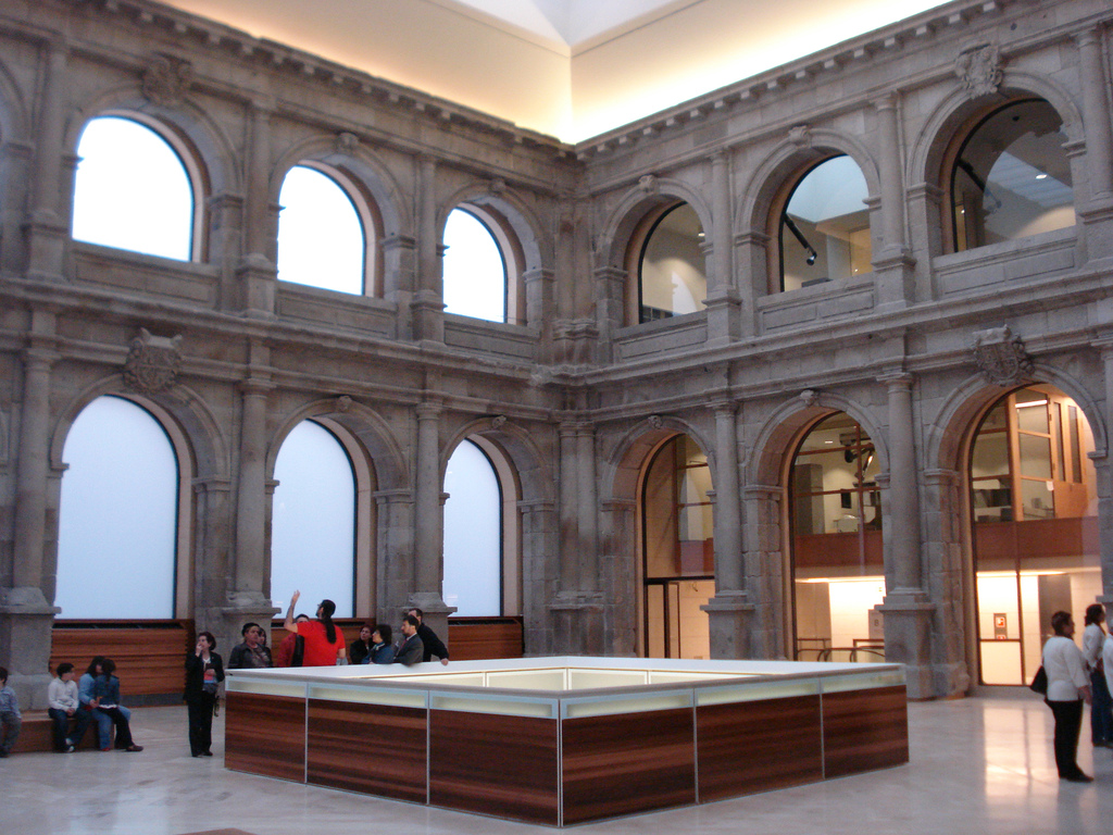 Interior of the extension of the Prado Museum (Madrid, Spain), with the cloister of St. Jerome Church.